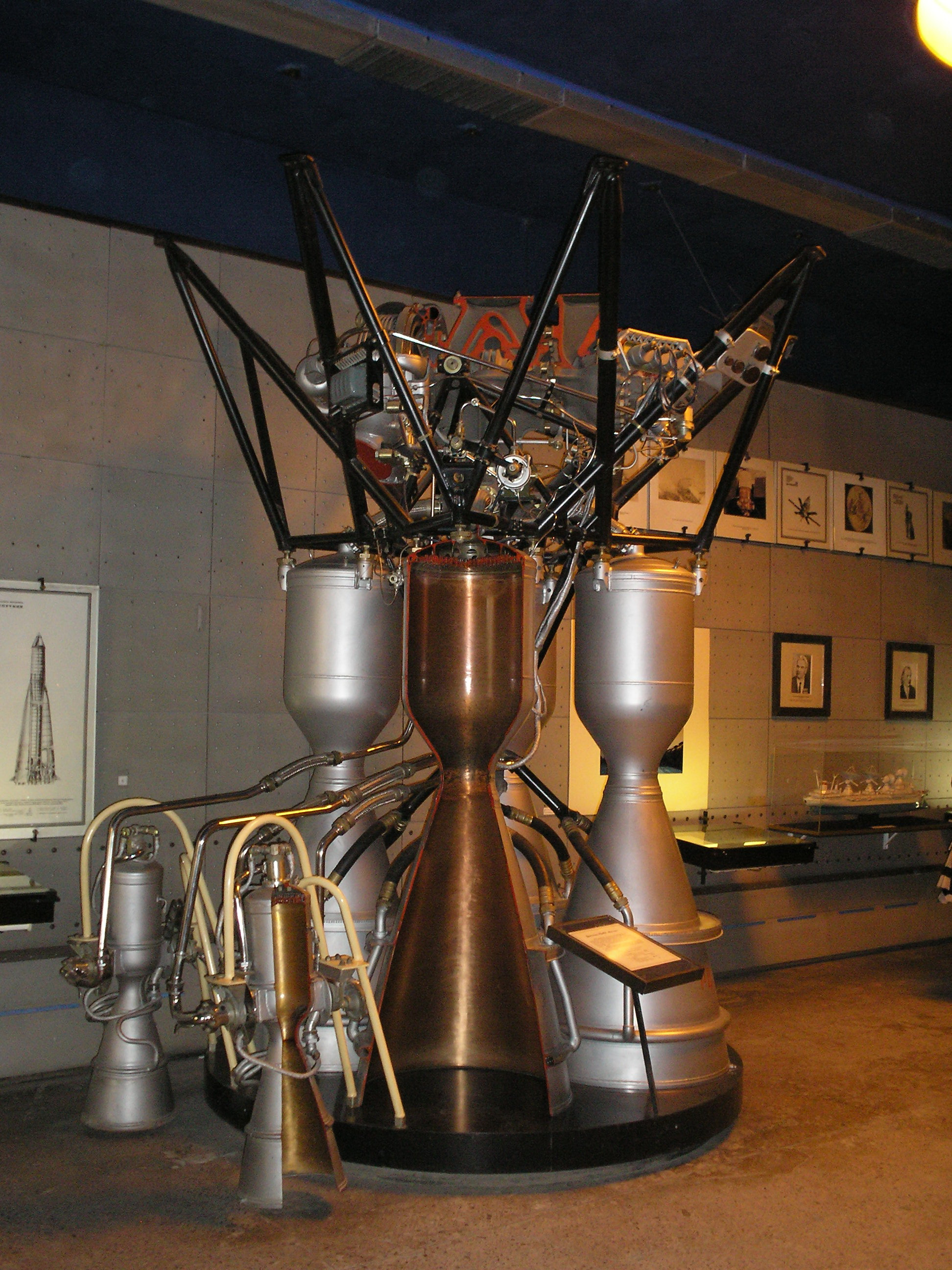 Rocket engine RD-107 "Vostok". St.-Petersburg. A museum of astronautics and the rocket technics.